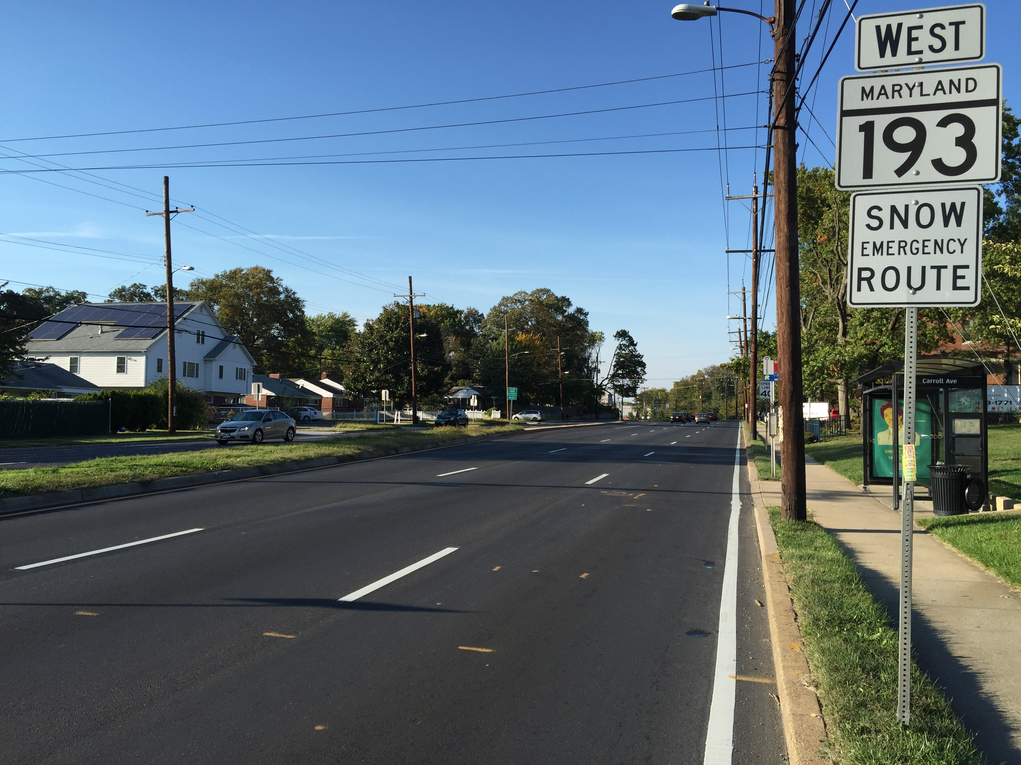 View west along Maryland State Route 193 (University Boulevard) at Maryland State Route 195 (Carroll Avenue) in Silver Spring, Montgomery County, Maryland